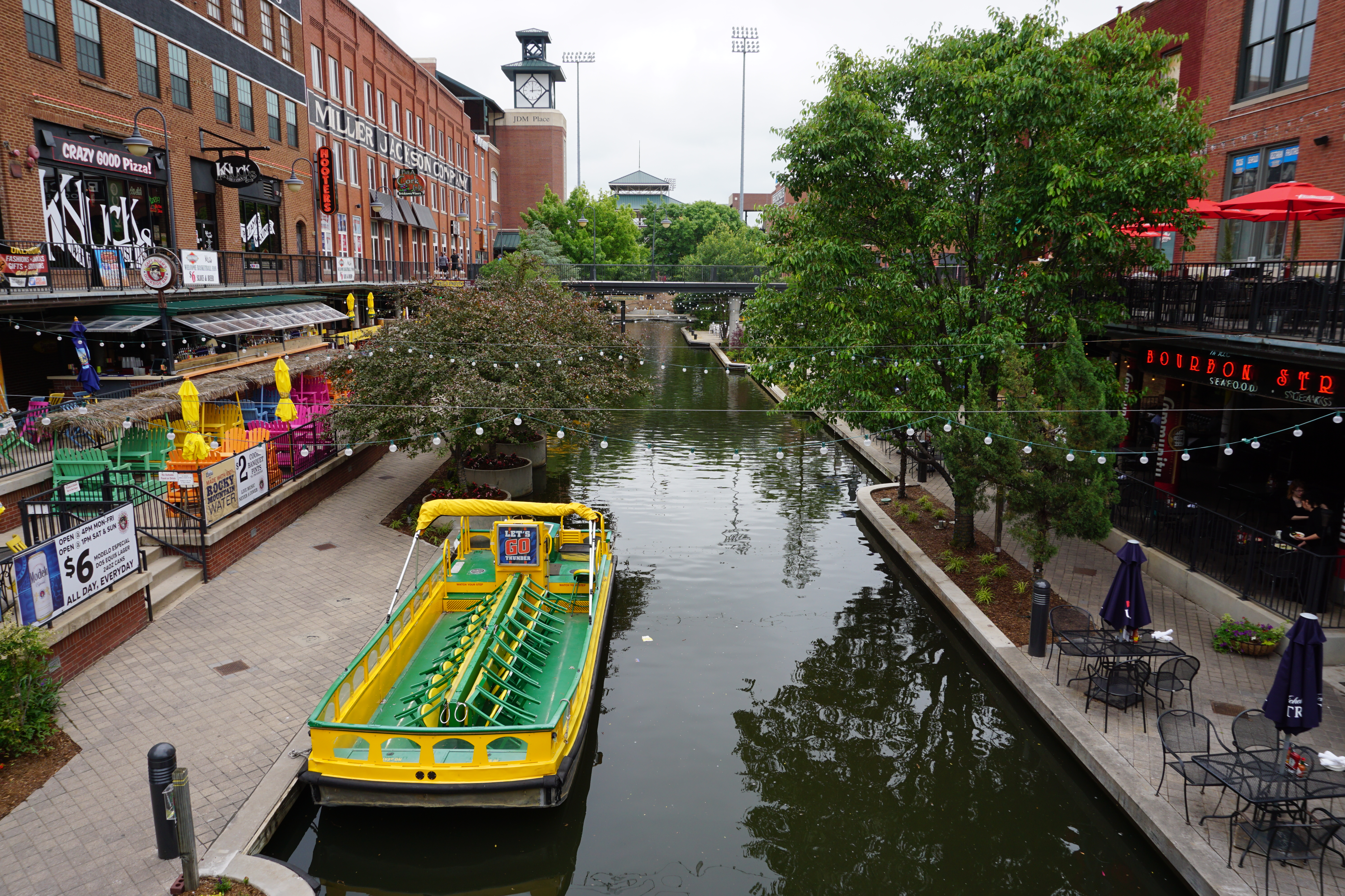 The canal in the Bricktown district of Oklahoma City, Oklahoma (United States).